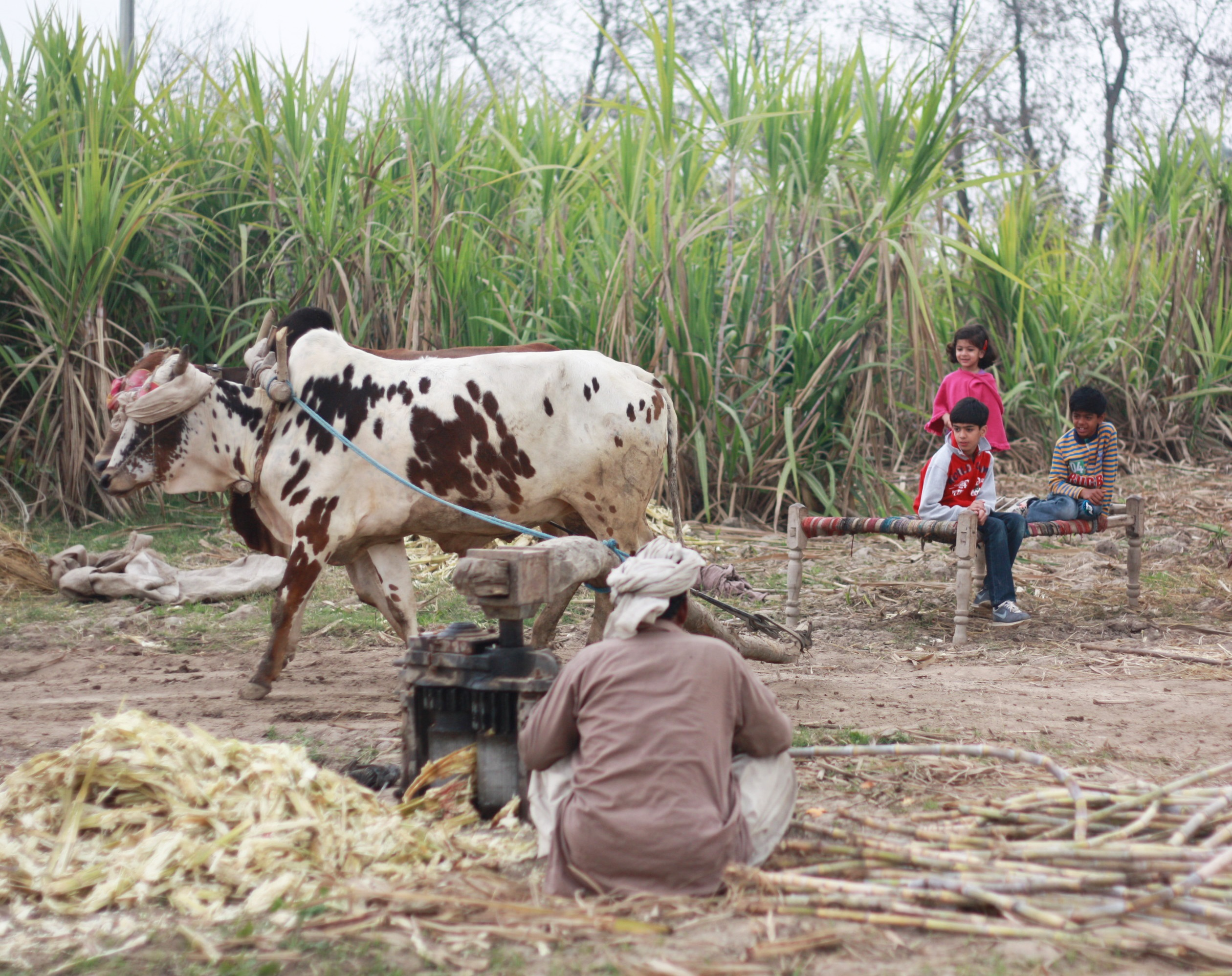 Jaggery - گُڑ Production Process